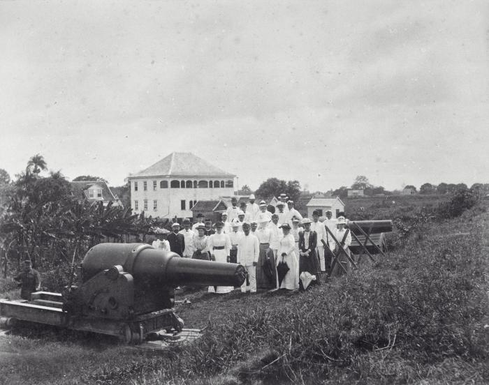 Governor Junker T.A.J. van Asch van Wijk and his party at Fort New Amsterdam, Dutch Guiana (now Suriname). The gun appears to be a British-made rifled muzzle-loading (RML) weapon, possibly 10-inch, 12-inch, or 12.5-inch.